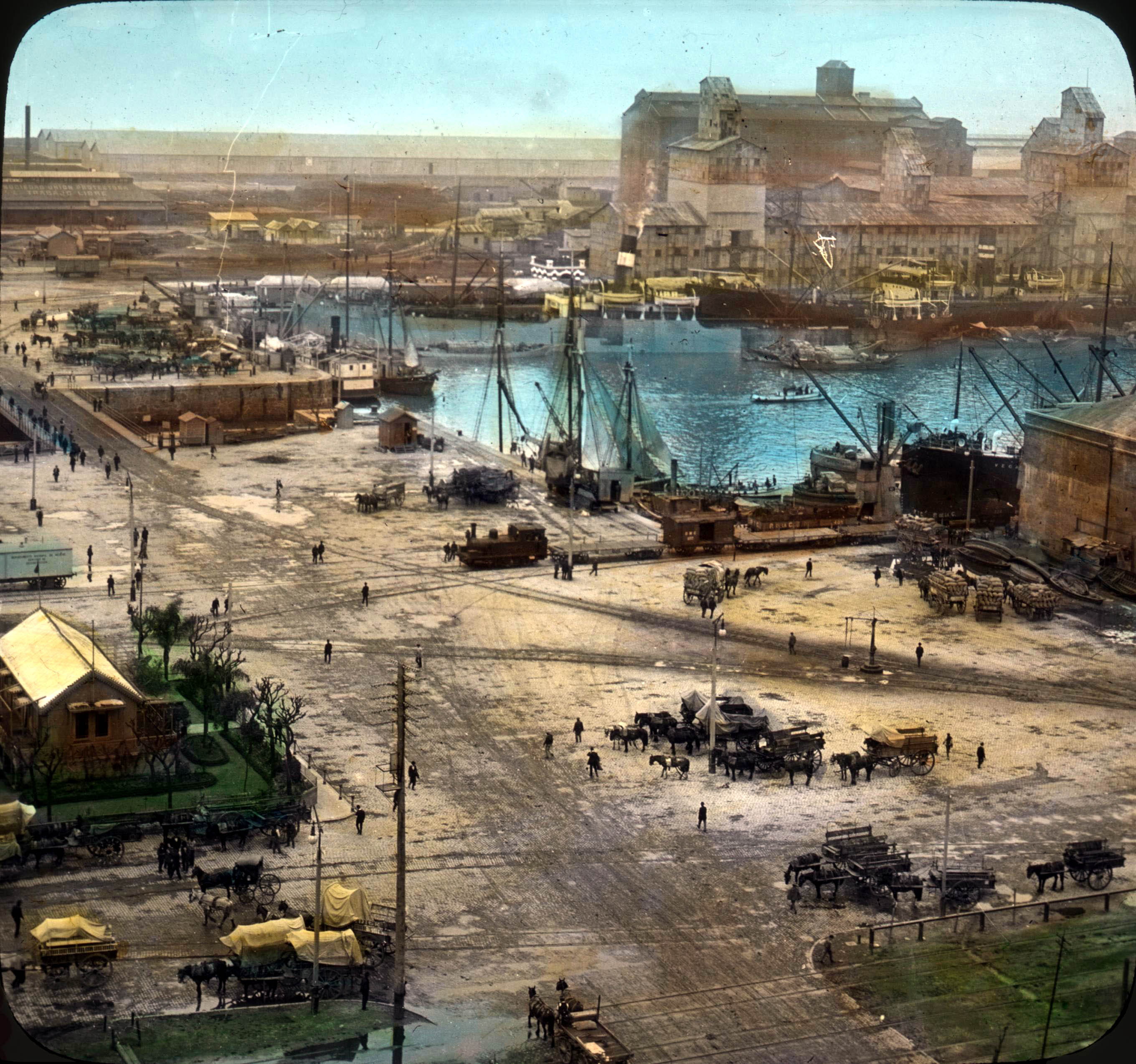 Image Title: Buenos Aires. Shipping and Docks from Aduana Principal, or Customs House Image Description from historic lecture booklet: "Population, 1,811,500. Beunos Aires, the capital of the republic, is now the largest city in South America. About one fifth of the entire population of Argentina live in this city. Like Chicago, Buenos Aires is built on flat land, and yet, like Chicago, Buenos Aires had the advantage of a wonderful system of parks and playgrounds. There are seventy- two parks in Buenos Aires, and they are being improved and enlarged every year. The harbor at Buenos Aires was not satisfactory, and on account of this fact a great deal of dredging has been done to deepen the water. A very excellent system of stone docks extend for miles along the water front. The Plata River is shallow estuary and not like a real river. The land sank and the sea water came into the mouth of the river, just as it did when Chesapeake Bay was made. British and German people have invested large amounts of money in Buenos Aires and throughout Argentina. Many of the storekeepers are foreigners; some are Spanish, others Portuguese, others Italian. Spanish is the language most commonly spoken; Buenos Aires is, in fact, the largest Spanish-speaking city in the world, larger than any city in Spain" Original Format: Lantern slides Original Collection: Visual Instruction Department Lantern Slides Item Number: P217:set 051 023 Restrictions: Permission to use must be obtained from the OSU Archives. Click here to view The Best of the Archives. Click here to view Oregon State University's other digital collections. We're happy for you to share this digital image within the spirit of The Commons; however, certain restrictions on high quality reproductions of the original physical version may apply. To read more about what “no known restrictions” means, please visit the OSU Archives website.